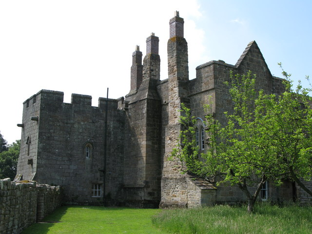 Photograph